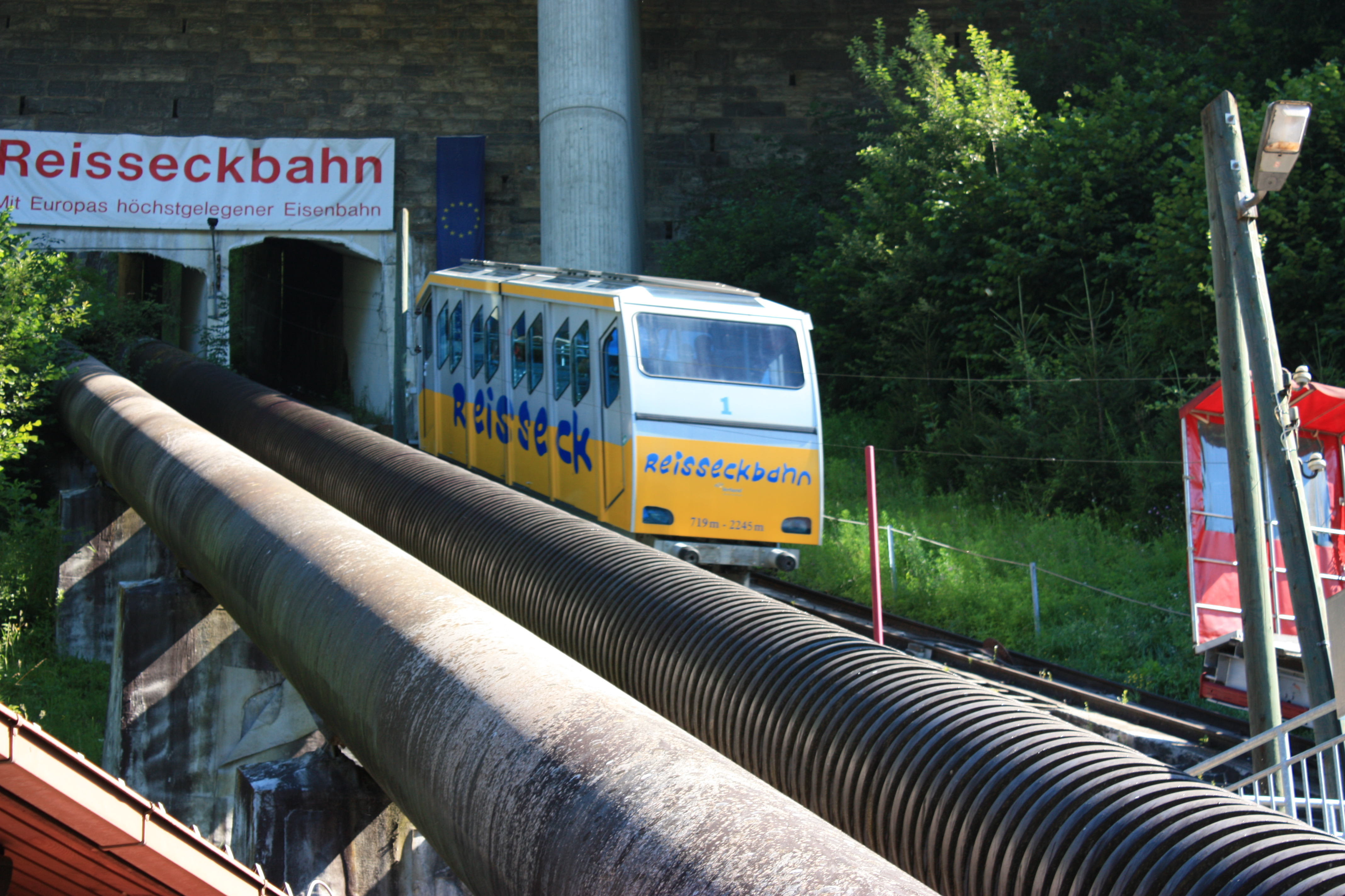 Reißeckbahn (Funicular) Community:Reißeck